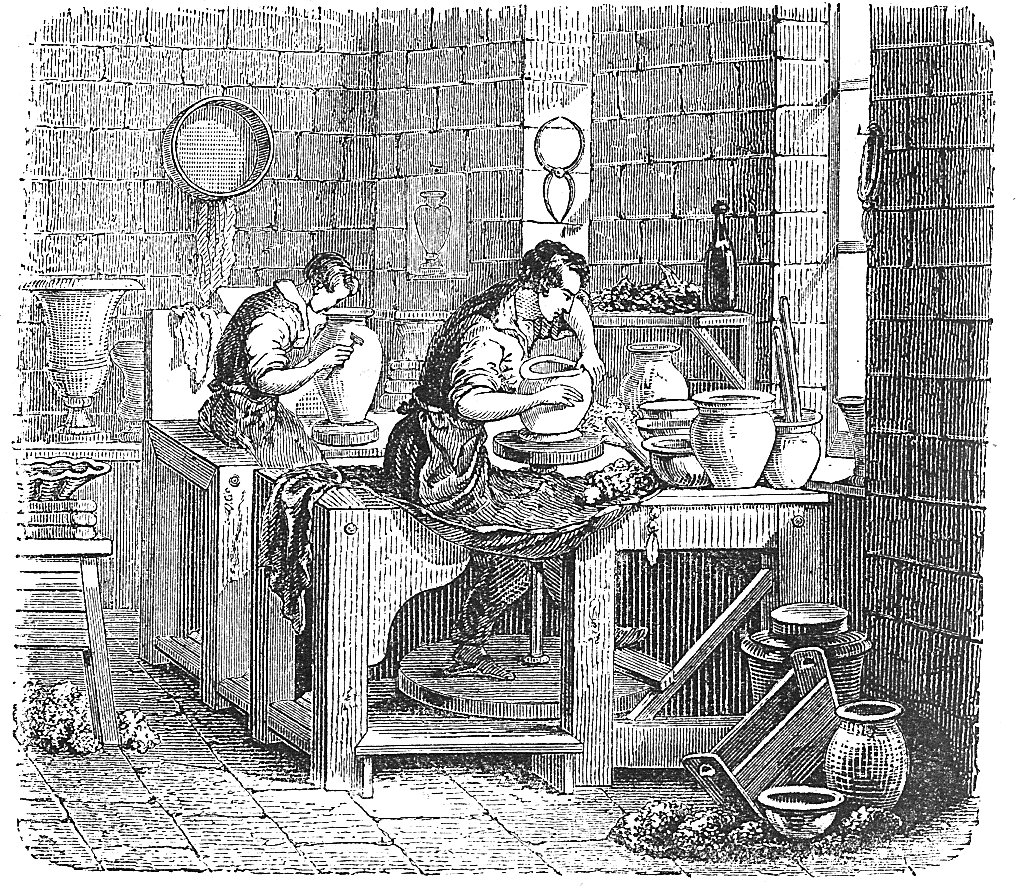 Traité Élémentaire de Chimie (first edition 1865), by Louis Joseph Troost (1825-1911)